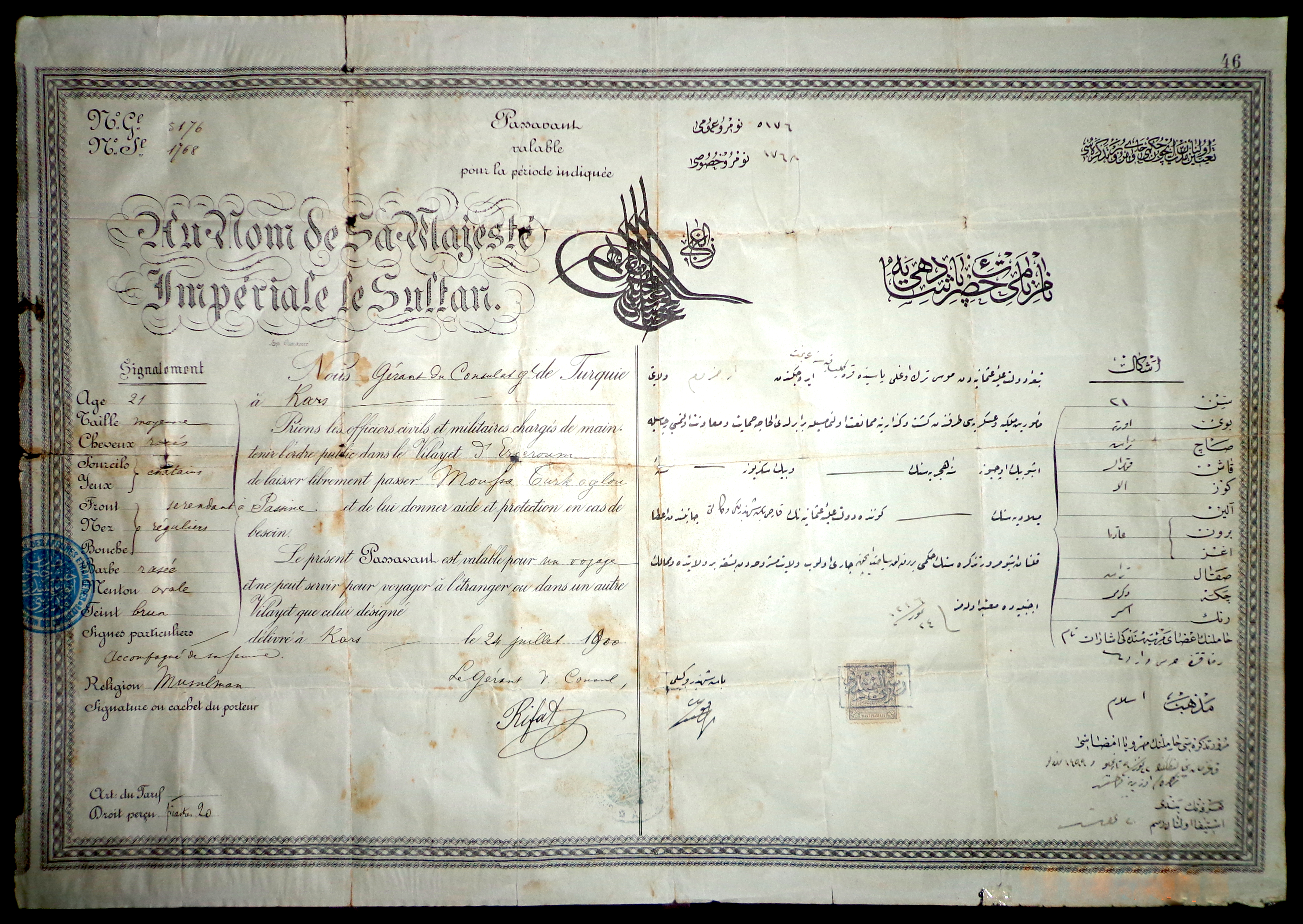 An Ottoman passavant (document combining the functions of a passport and a visa) issued by the Ottoman consulate-general in Kars (Russian Empire) on July 24th, 1900.